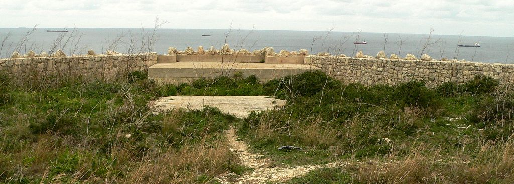 The Fort Campbell in Malta is a ruin. It is located in the north of Malta, near the town of Mellieha. You can use this images for free. But a link to the - I would be happy :)